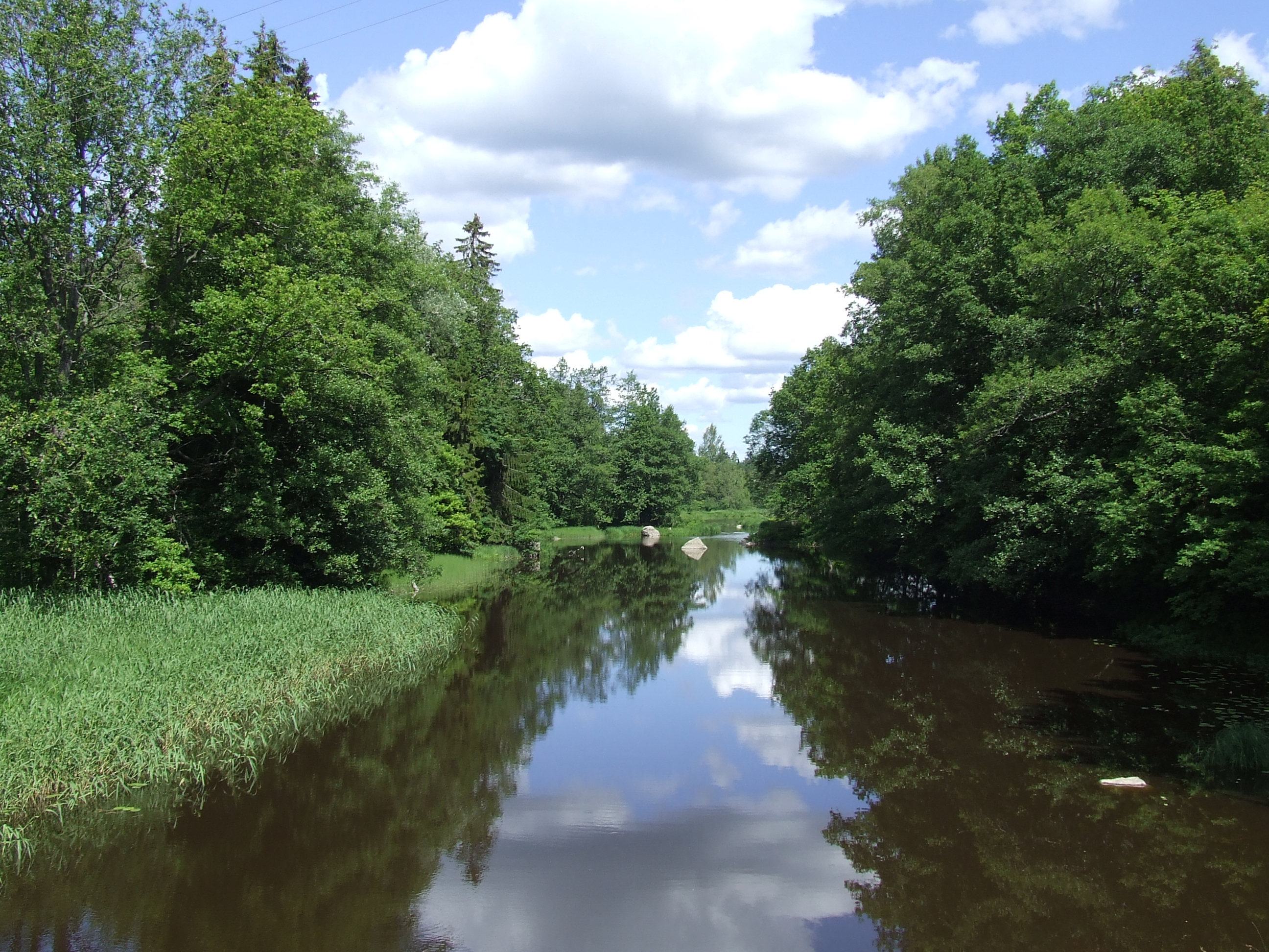 Summa River in Hamina, Finland.